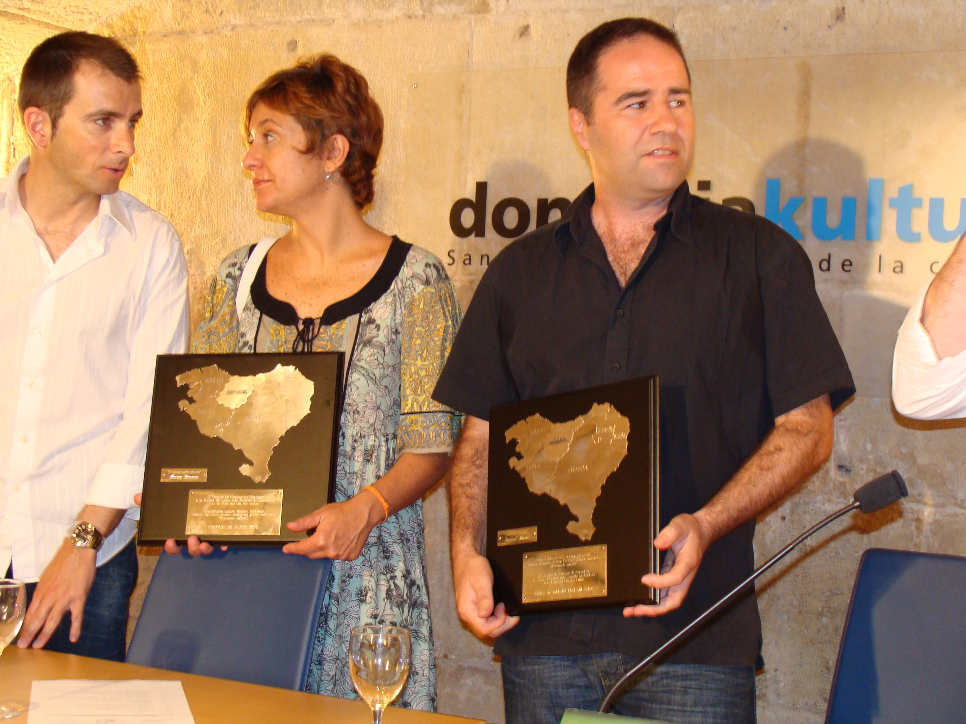 Imanol Murua Uria in Euskadi prizes, 2010.